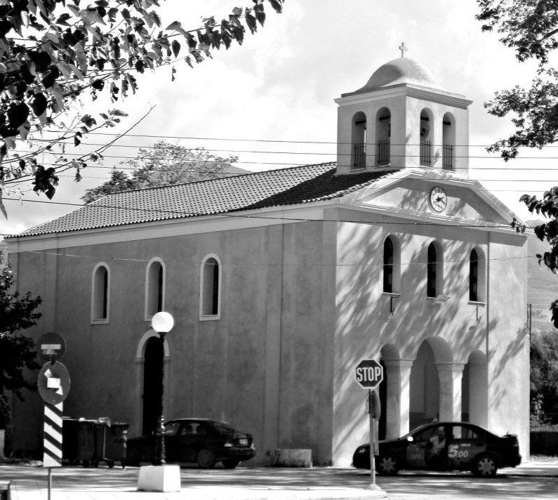 Christian Orthdodox church dedidated to Saint Nicholas in the neighborhood of Lefka, Patras, Achaia, Greece.